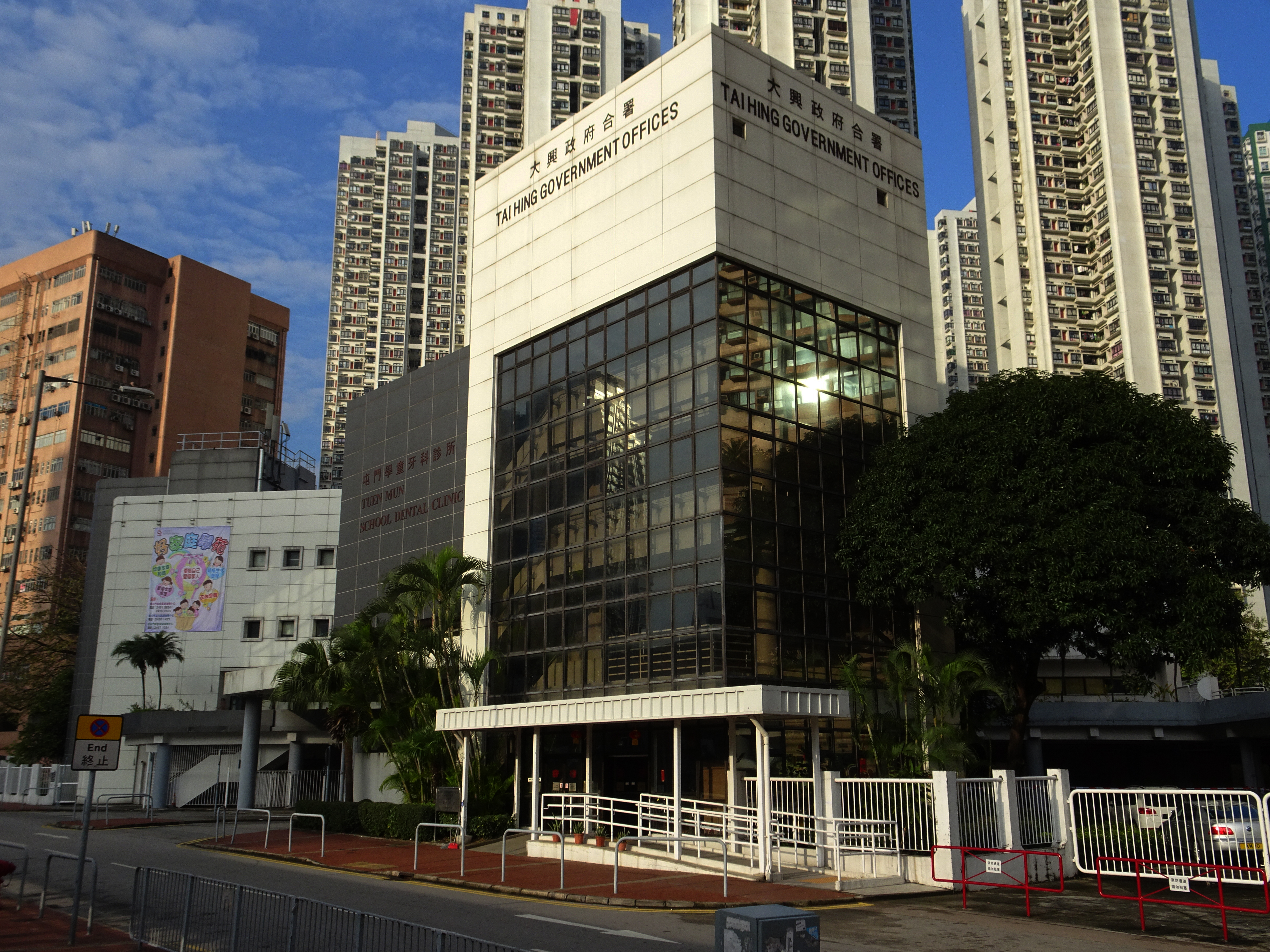 Tai Hing Government Offices in Tuen Mun, Hong Kong.